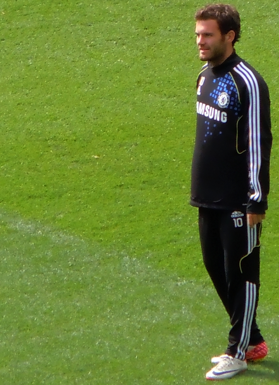 Juan Mata before Chelsea vs. Norwich game